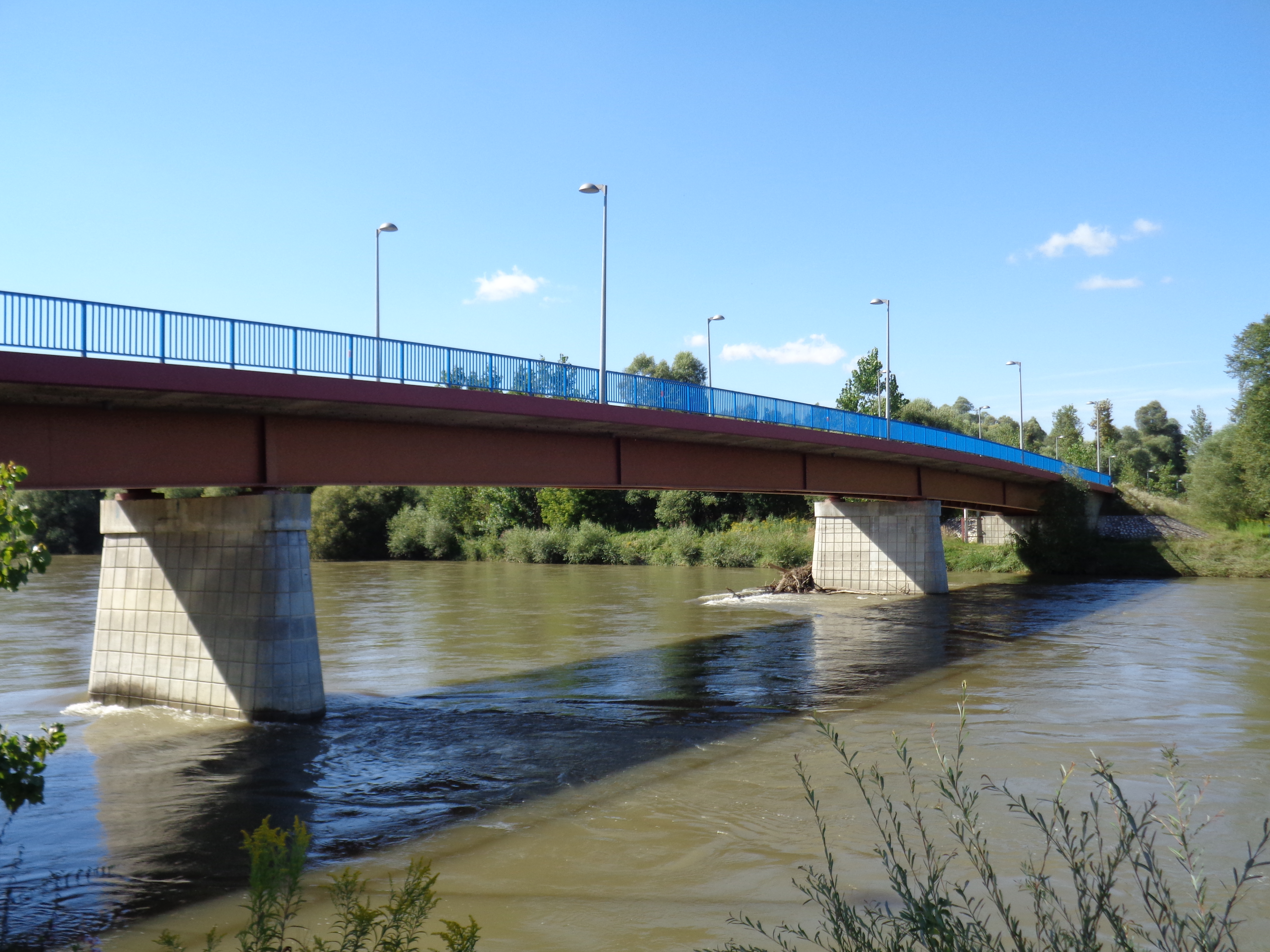 Road bridge over the Mura river in Sveti Martin na Muri, Međimurje County, Croatia - southeast view